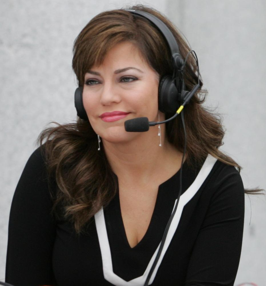 Robin Meade at Fort Benning Georgia. Cropped from larger picture at